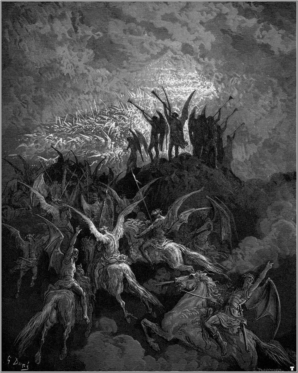 Illustration for John Milton’s “Paradise Lost“